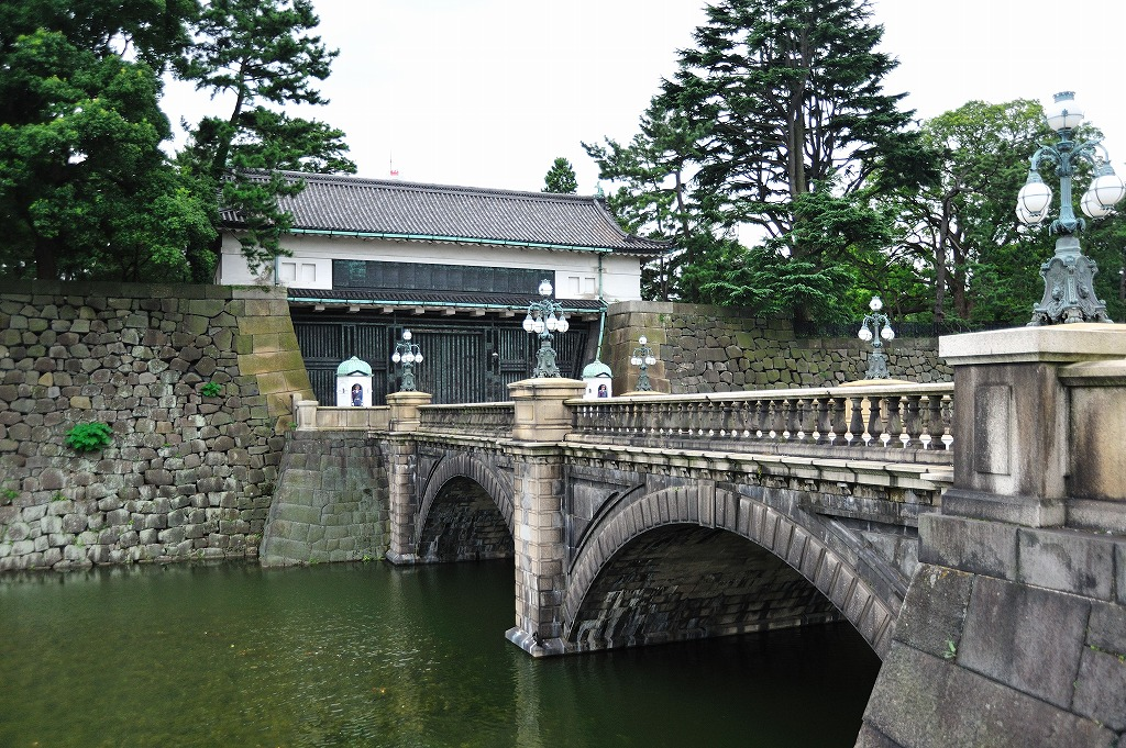 Tokyo Imperial Palace Main Gate(seimon)